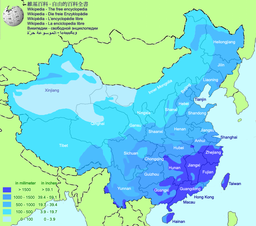 The map for the average annual precipitation of China Drawn by Alan Mak in March, 2006.Image:Average annual precipitation in China(Chinese).png